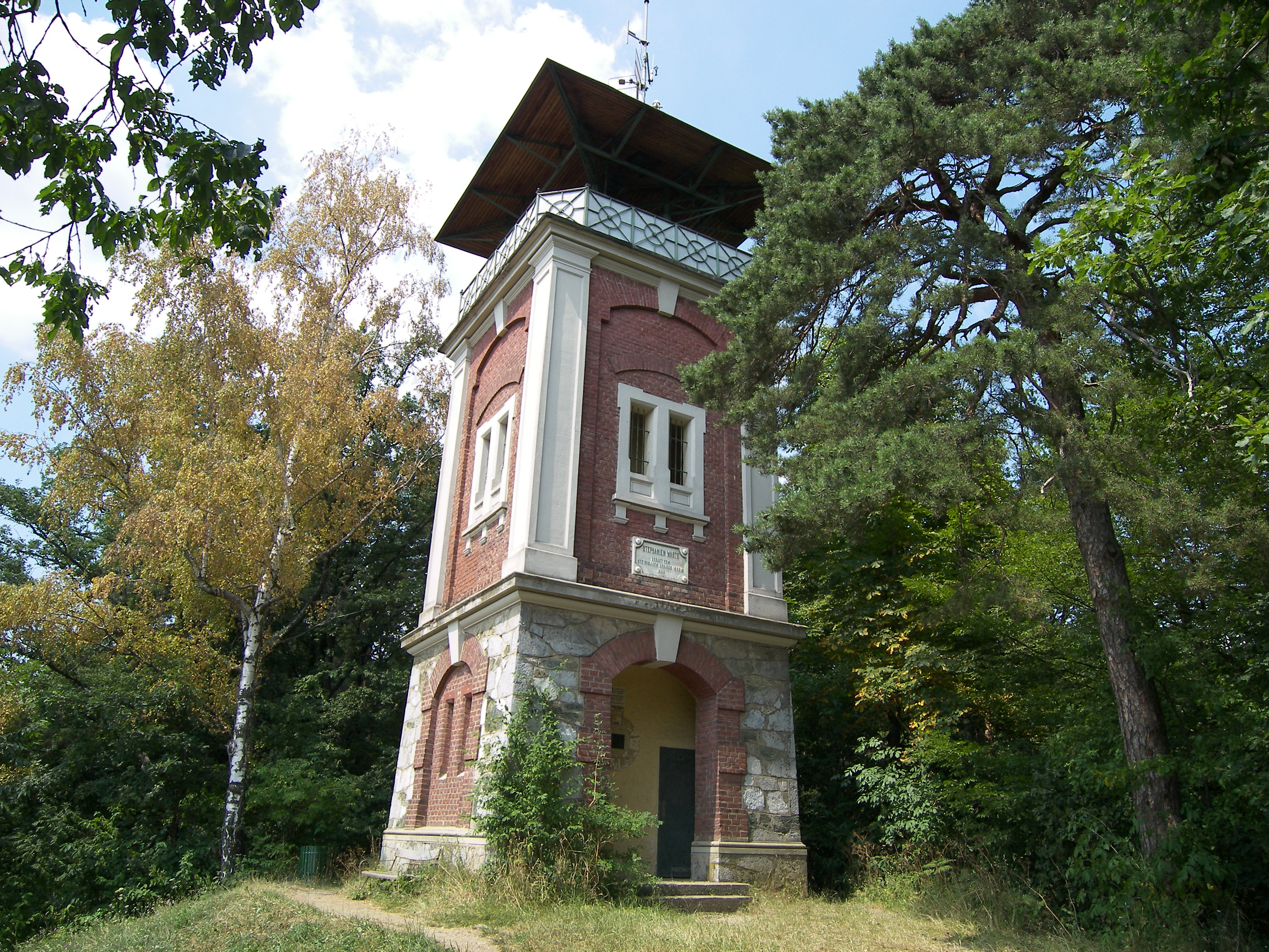 Stephanienwarte on top of Platte near Graz (Austria)